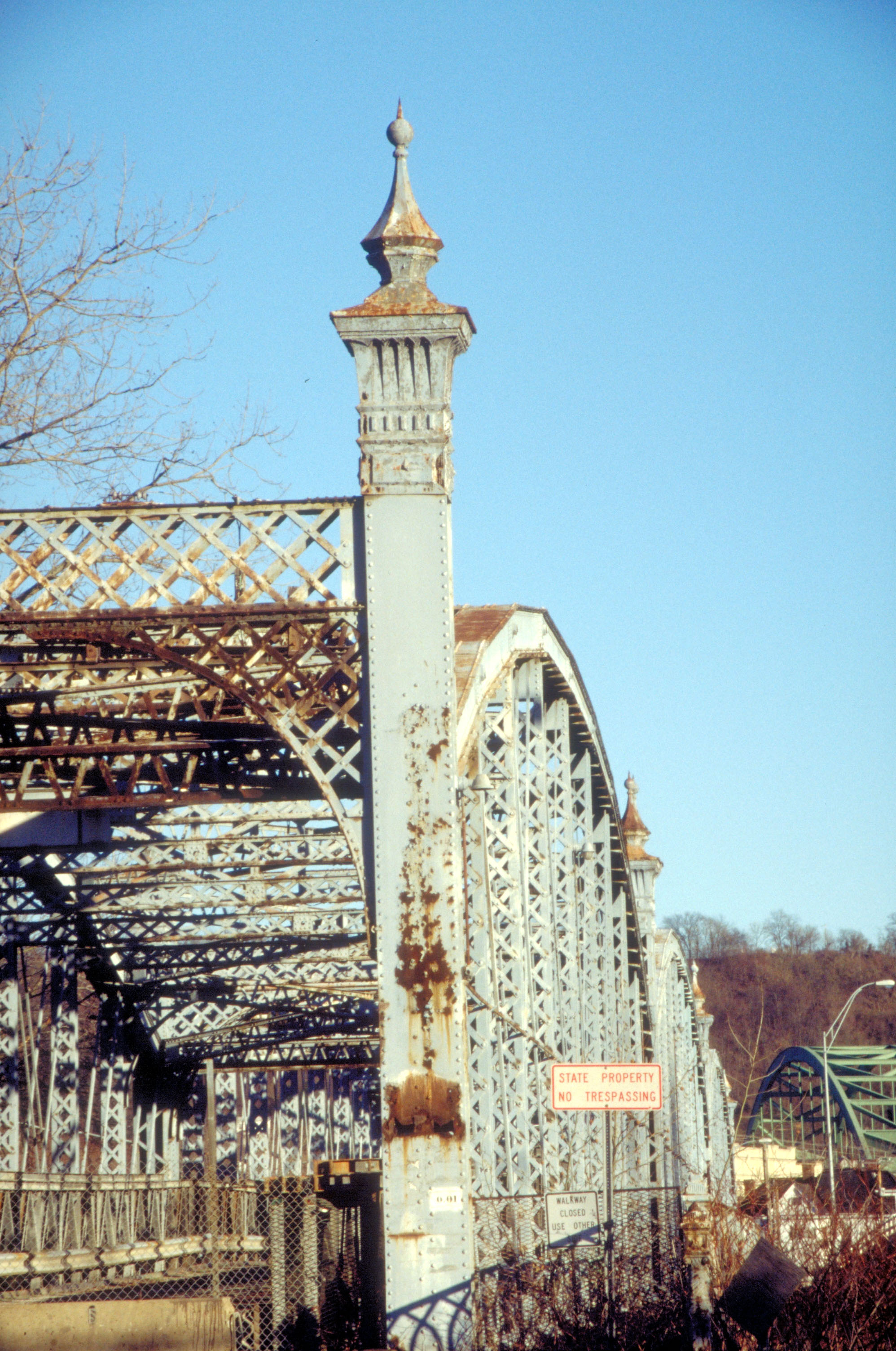 Bridgeport (Ohio) Bridge. Built 1893. Truss Type. Carried US40 over "Back" River (West Channel of Ohio River) between Wheeling, WV and Ohio. Wheeling's Fort Henry Bridge is in background.